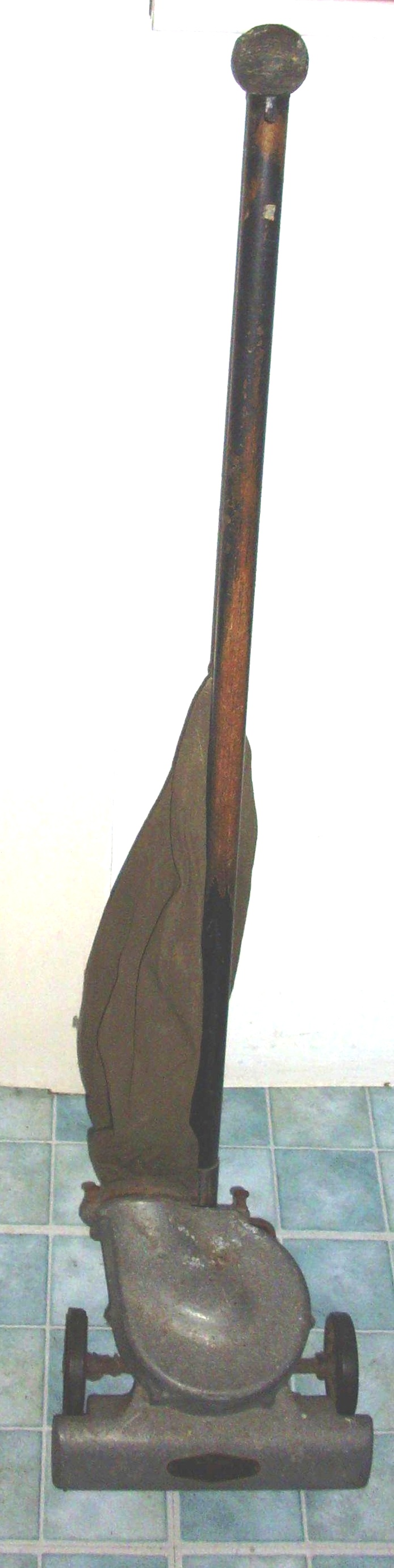 Pre-electric vacuum cleaner. Wheel movement is geared up to drive the suction fan and flywheel. Still works perfectly. Released into public domain, you can use this picture for any purpose.